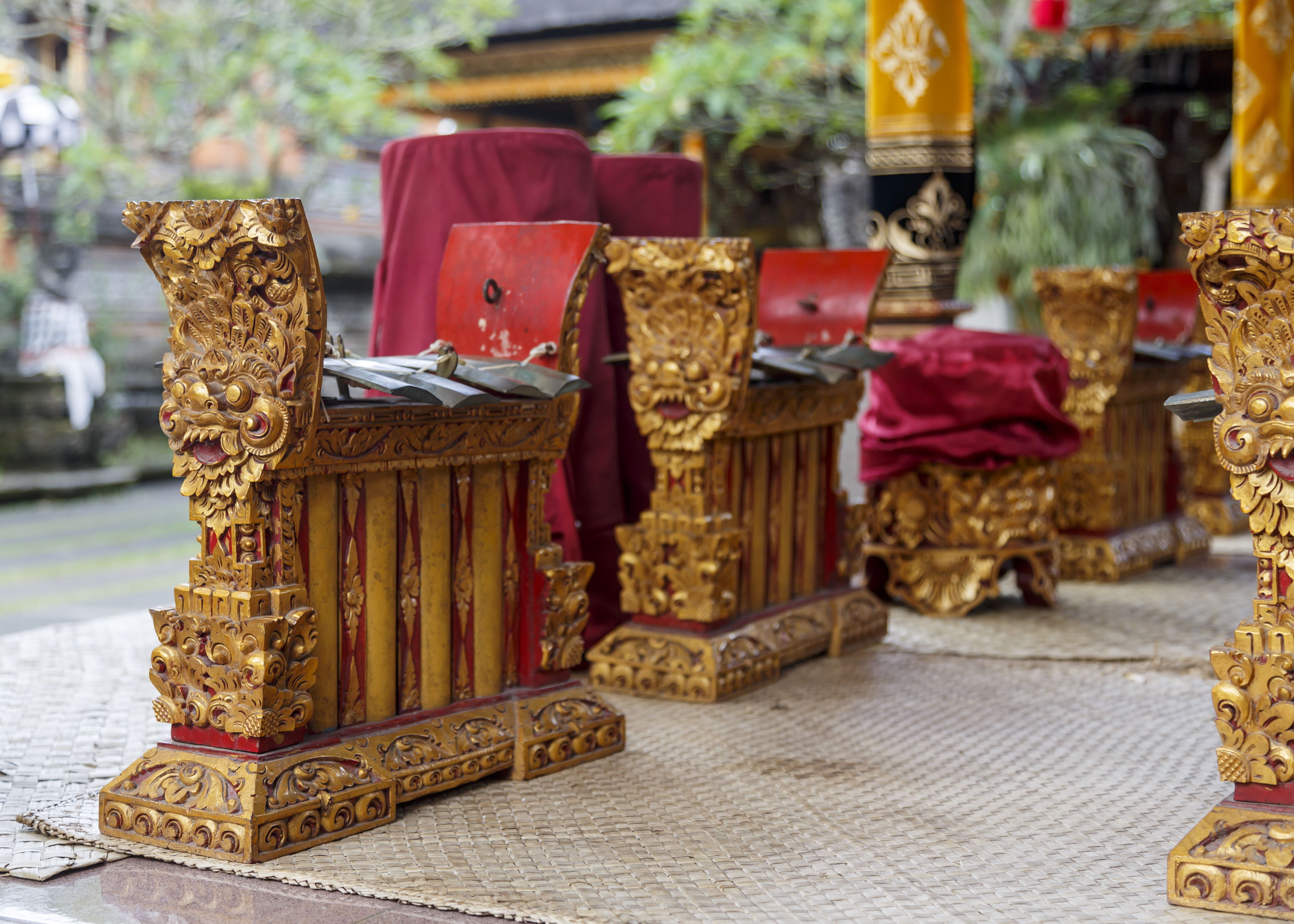 Ubud, Bali, Indonesia: The rich wood carving of a "Gangsa" among other instruments of a traditional indonesian orchestra at Pura Dalem Puri.